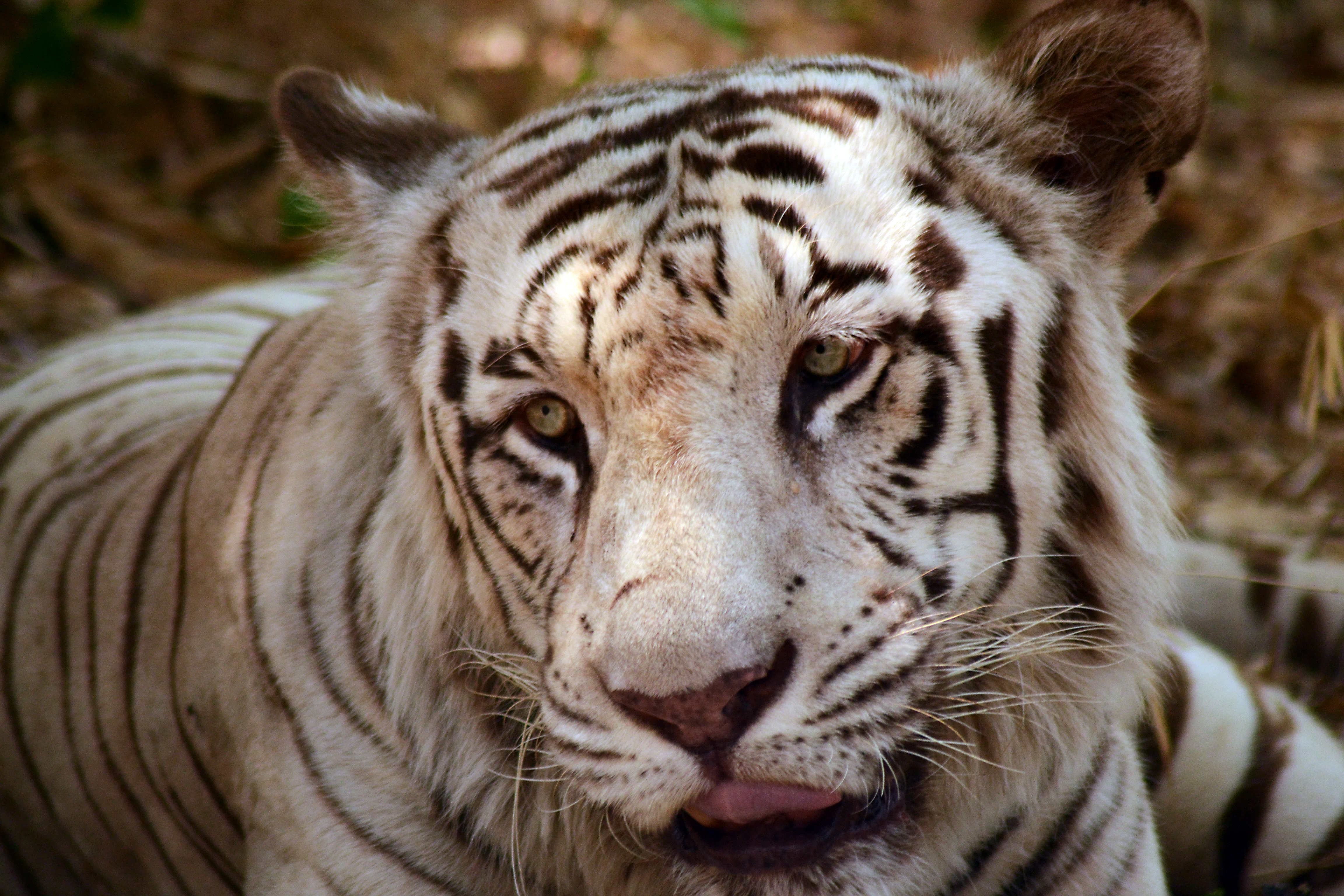 Captured this Royal Bengal white tiger looking straight into the camera lens. Camera: Nikon D3100 Lens: Tamron 70-300 AF LD-Di 4.0-5.6